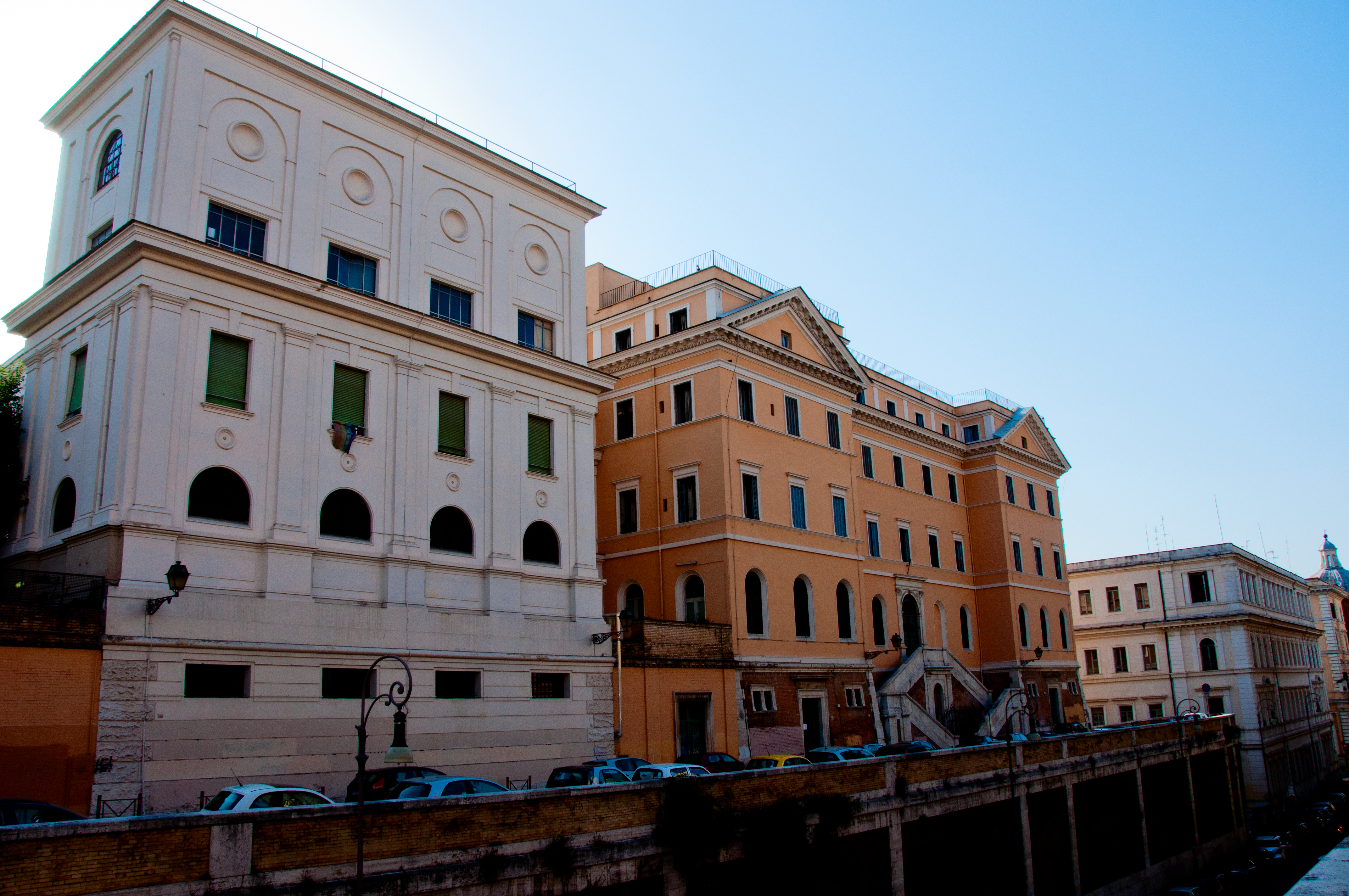 The Liceo scientifico Cavour in via Vittorino da Feltre, Rione Monti, Roma